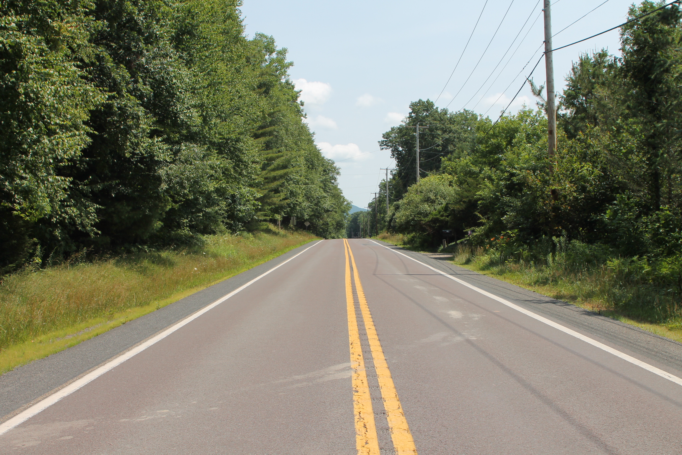 Pennsylvania Route 118 in Sugarloaf Township, Columbia County